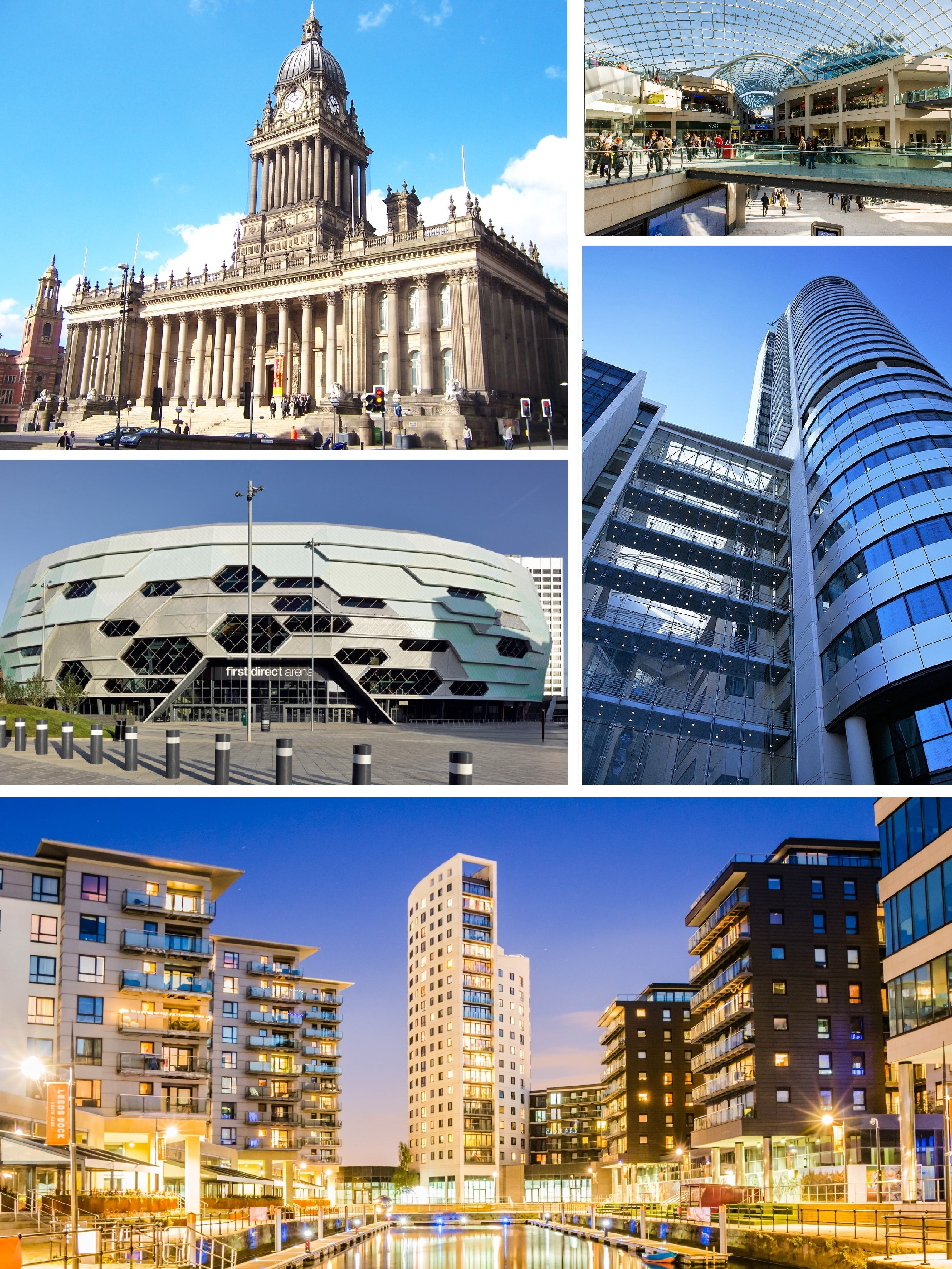 A montage of Leeds. Includes TownHall, Trinity Leeds, Leeds Arena, Bridgewater Place, and Leeds Dock.